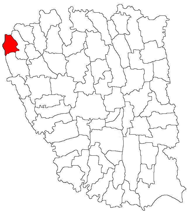 Limits of Poiana Commune in Galati County